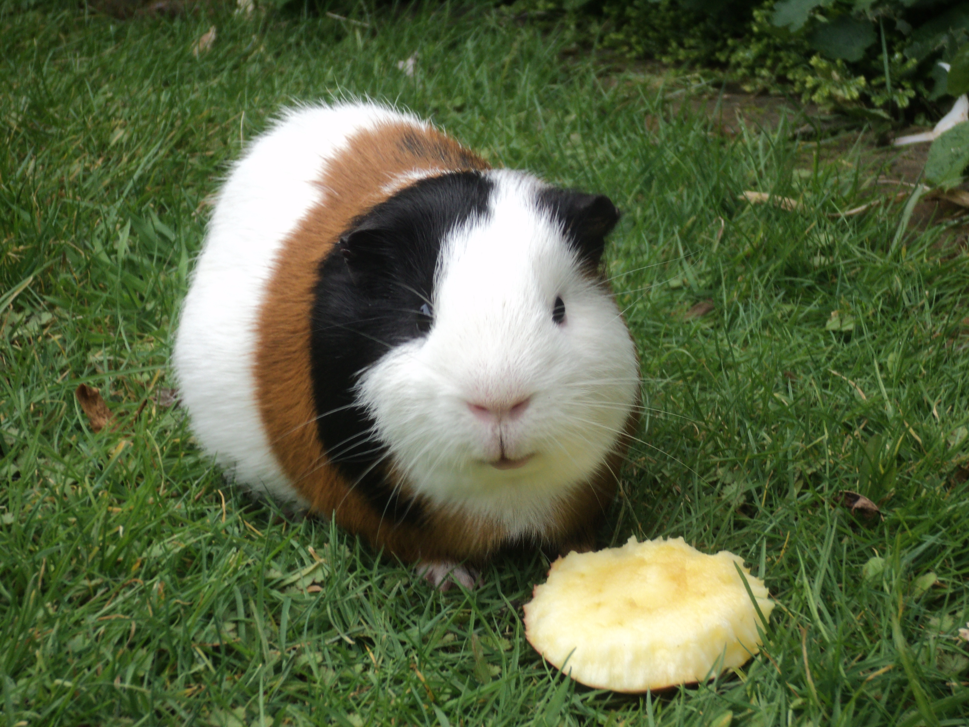 A free range Guinea Pig eating apple